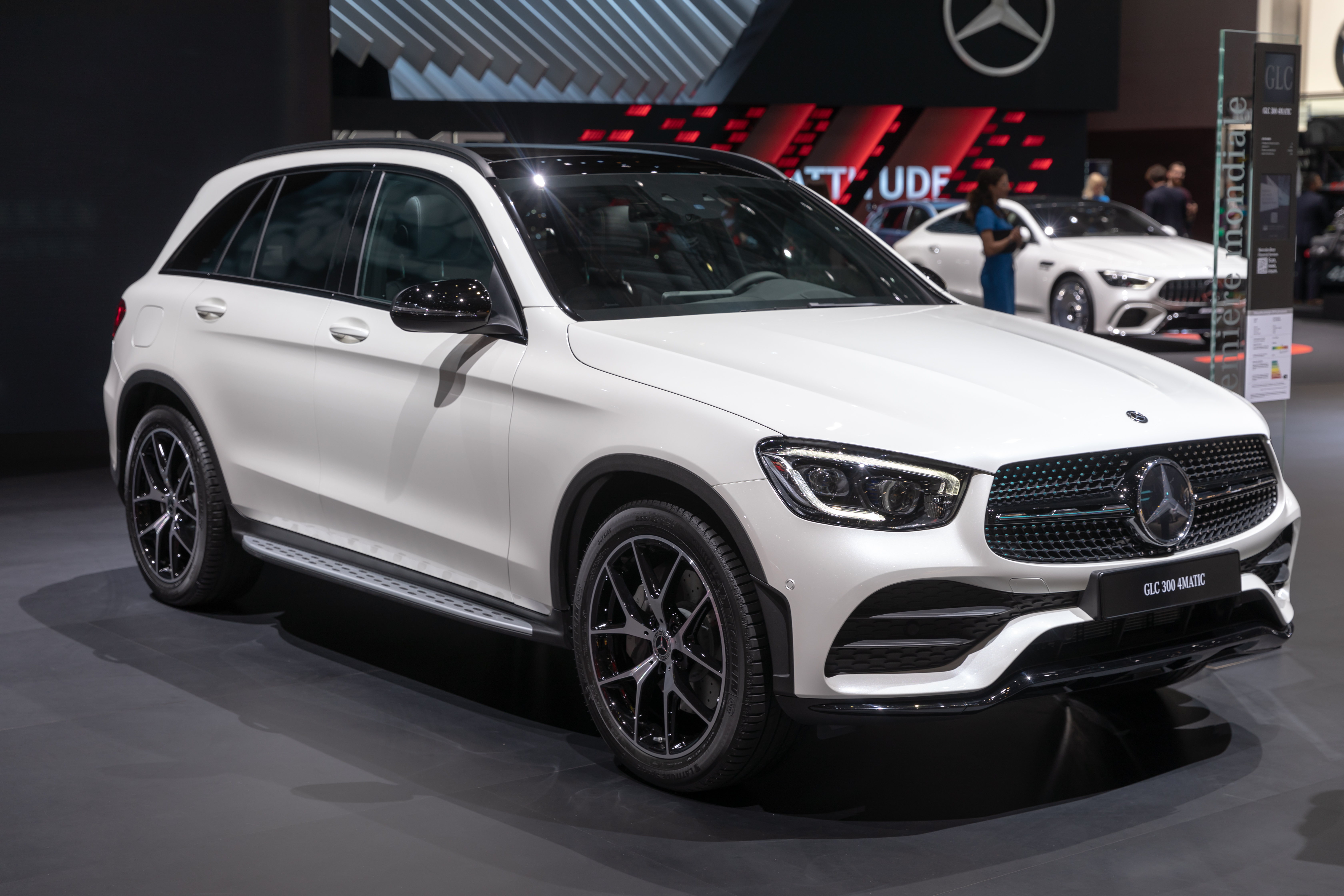 Geneva International Motor Show 2019, Le Grand-Saconnex